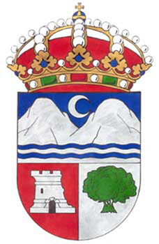 shield divided into two parts, the first, in an azure field, two silver mountains on silver and azure waves and, above, a crescent moon outlined in silver; the second, 1st in red tincture a ruined tower of silver and 2nd in silver a green oak. It is stamped with a golden royal crown.